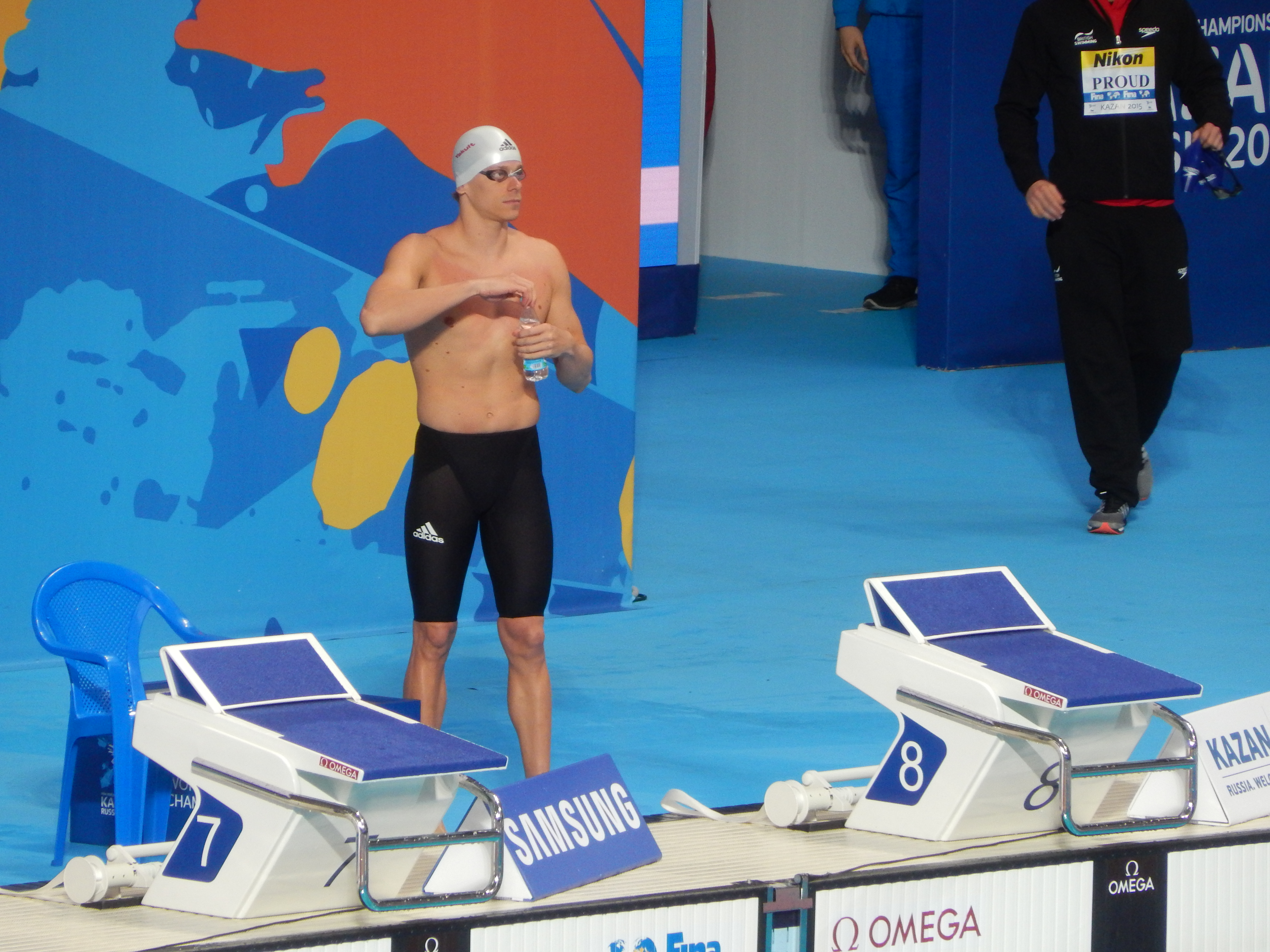 César Cielo before the 50m butterfly final in Kazan 2015